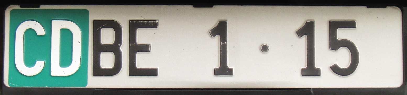 Swiss diplomatic license plate, Ambassador (1), Liechtenstein (15)